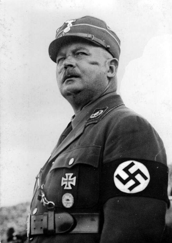 Ernst Röhm, wearing a „Kampfbinde“ on his arm.